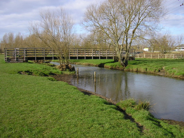 Footbridge over River Blackwater Recently built footbridge over the river near Watchmoor Park